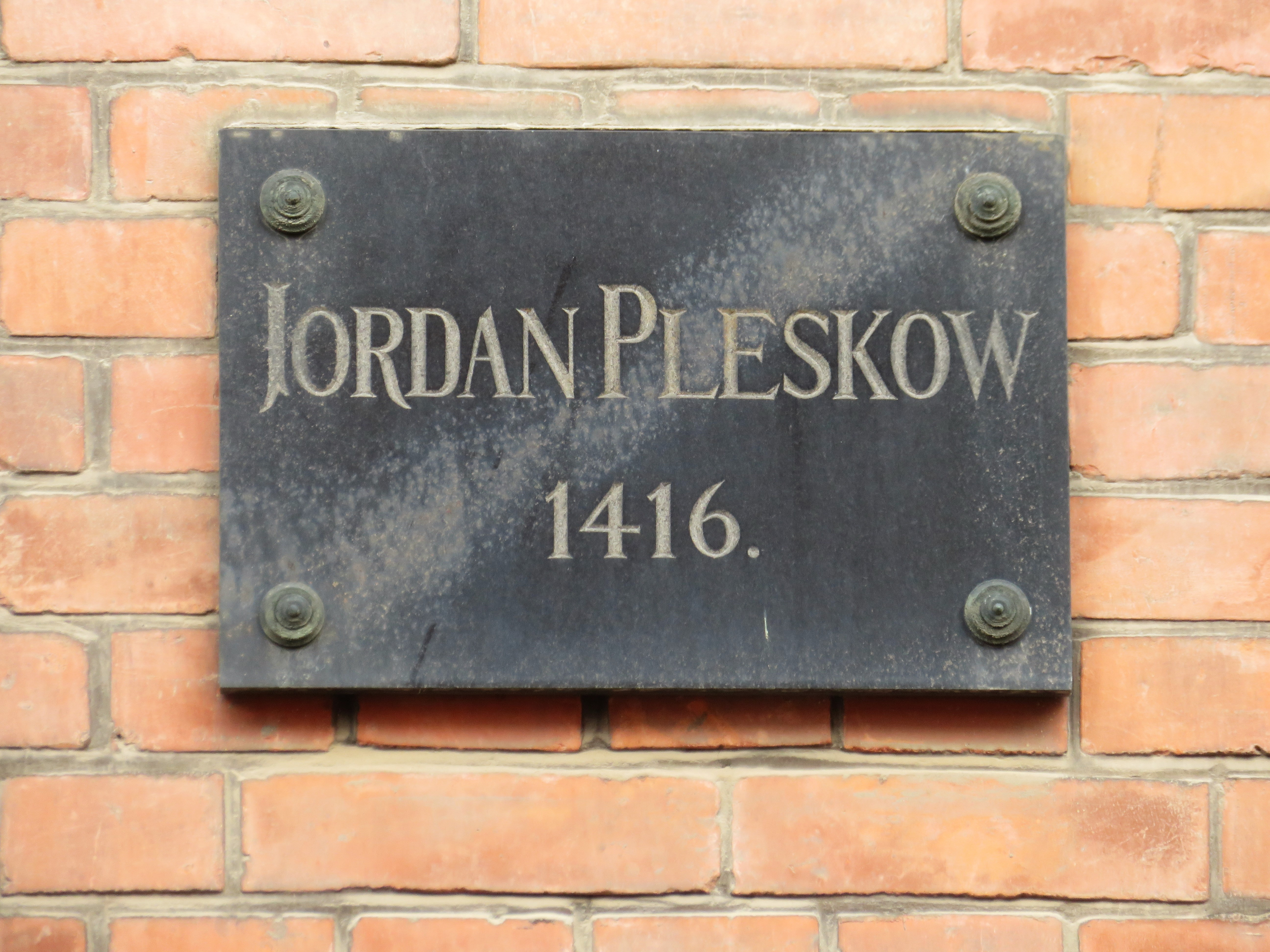 Plaque in memory of de;Jordan Pleskow, St.-Annen-Str.2, Lübeck